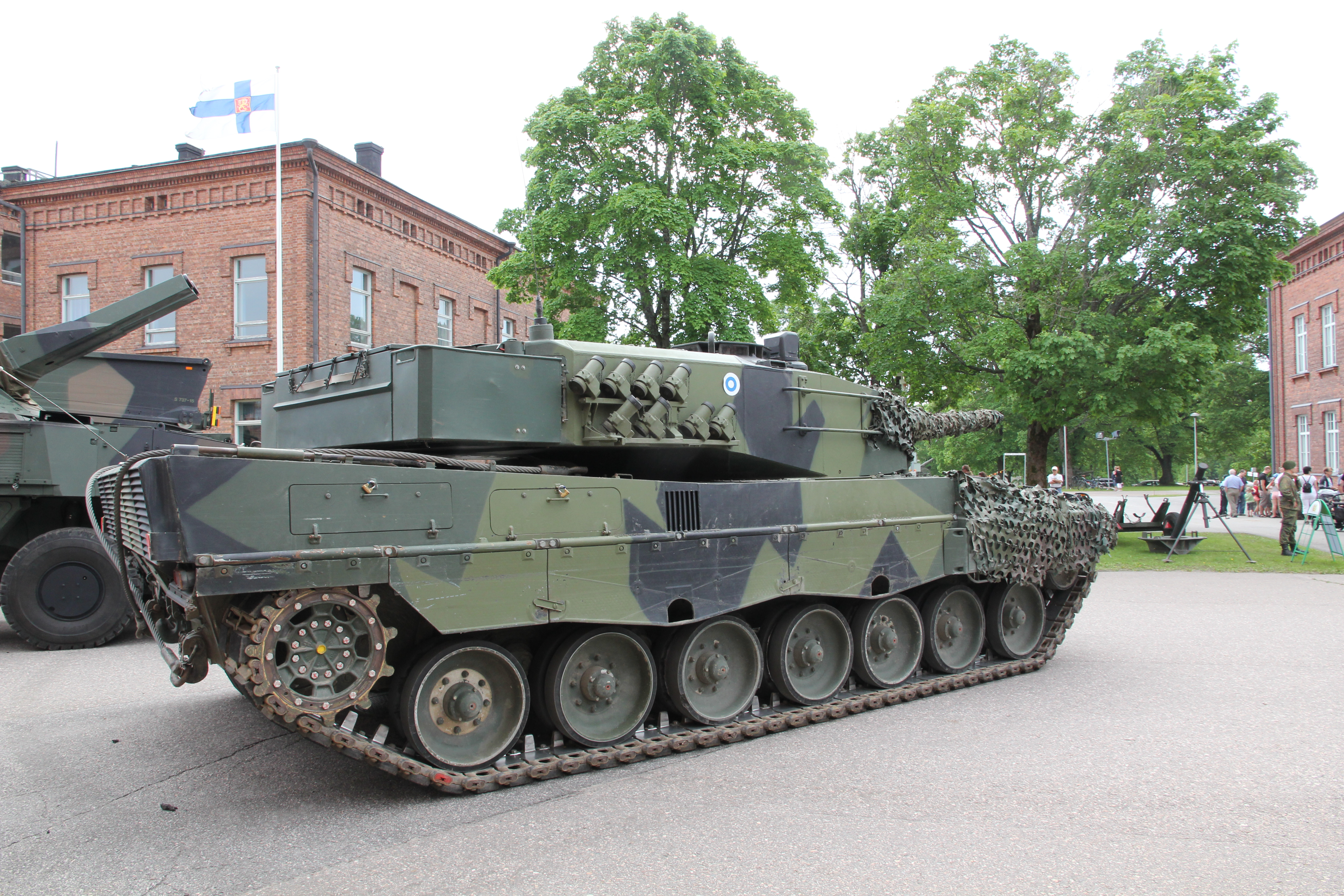 Leopard 2A4 main battle tank on display during Finnish Defence Forces 2014 Flag day in Lappeenranta Rakuunanmäki.